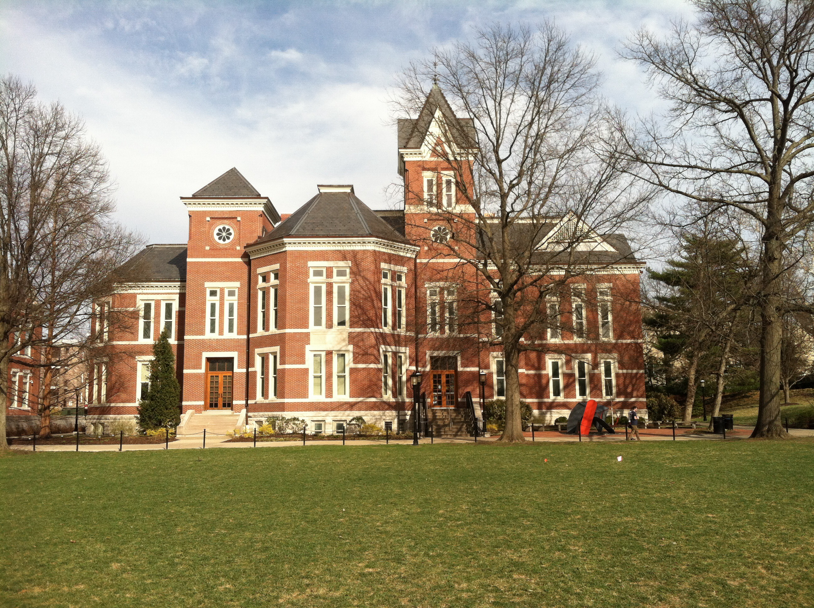 Pickard hall, Francis quadrangle at the university of missouri